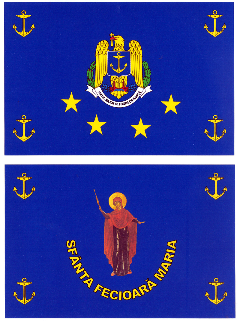 a scanned picture of both sides of the flag. taken from the online photo database of The Ministry of National Defense.